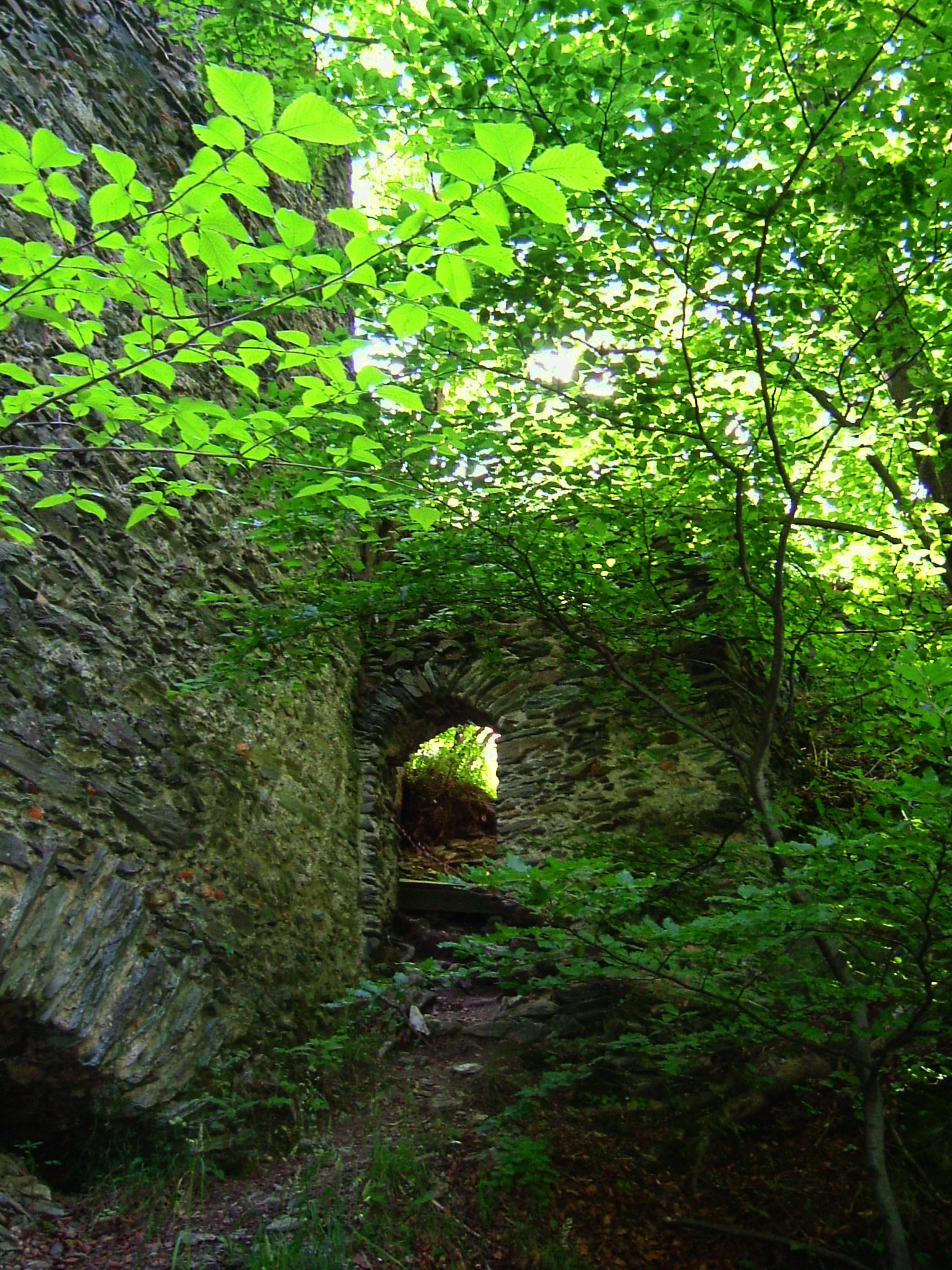 Passage leading to what once was the tower of Niesytno Castle